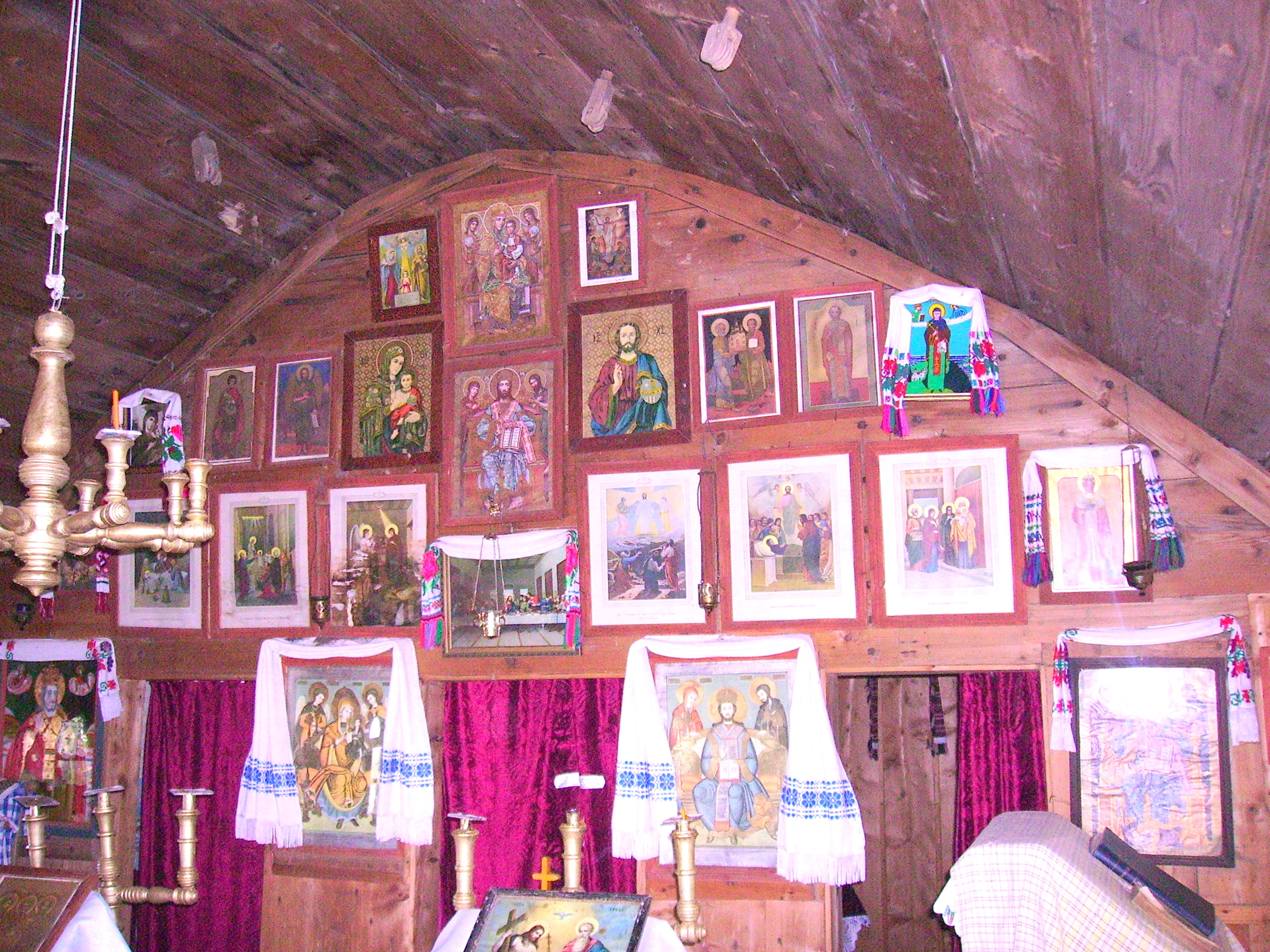 The wooden church in Merișoru de Munte, Hunedoara county, Romania